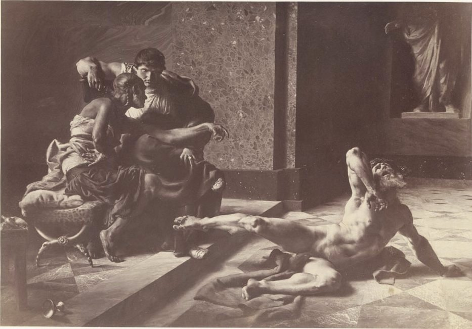 Joseph-Noël Sylvestre: Locusta testing in Nero's presence the poison prepared for Britannicus (Locuste essaye, en présence de Néron, le poison préparé pour Britannicus); on the ground is the slave who had to try the poison. Acquired by the Museum of Luxembourg and deposited (déposé) at the Museum of Amiens (according to La Tribune de l'Art).